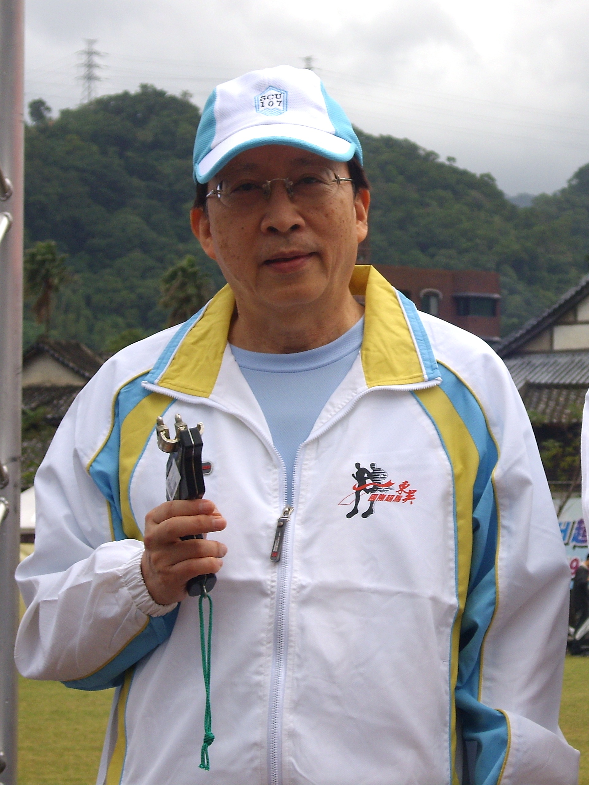 2007 Soochow International 24h Ultra-Marathon: Current Principal of Soochow University Chao-hsiuan Liu. Bân-lâm-gú: 2007-nî Tong-ngôo Tshiau-kip Ma-lá-sóng, Tong-ngôo Tāi-ha̍k ê hāu-tiúnn Lâu Tiāu-hiân. 2007年東吳超級馬拉松，東吳大學的校長劉兆玄。